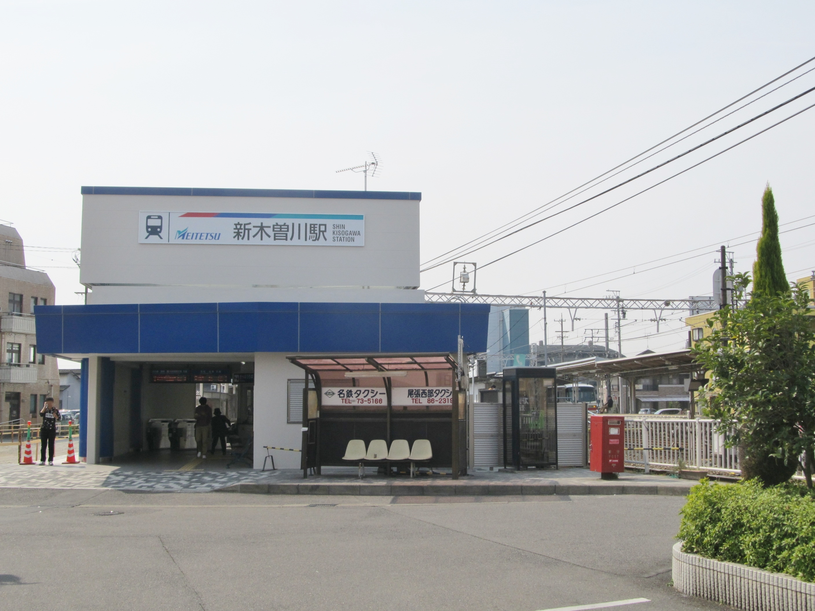 Nagoya Railroad Nagoya Main Line Shin Kisogawa Station Building